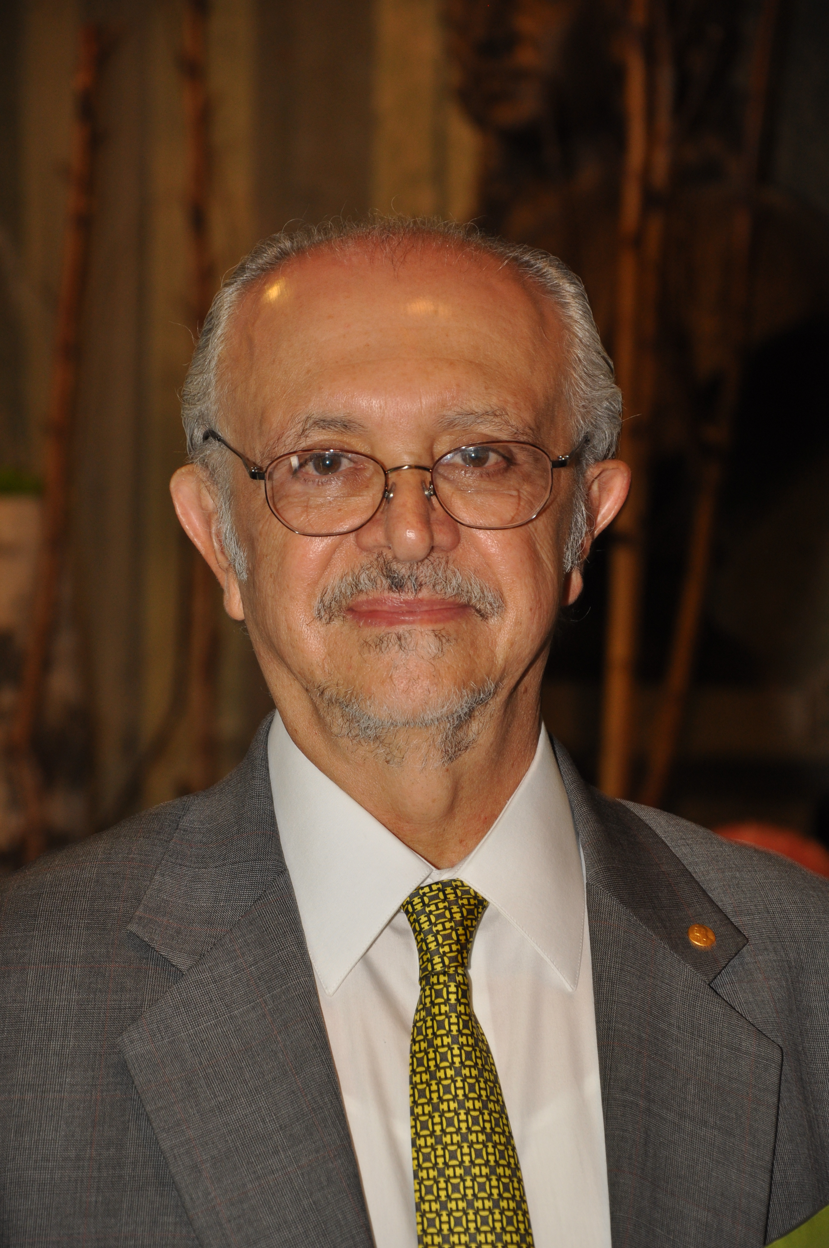 Mario Molina, at the Nobel Laurate Globalsymposium 2011, at Vetenskapsakademien in Stockholm, discussing climate change